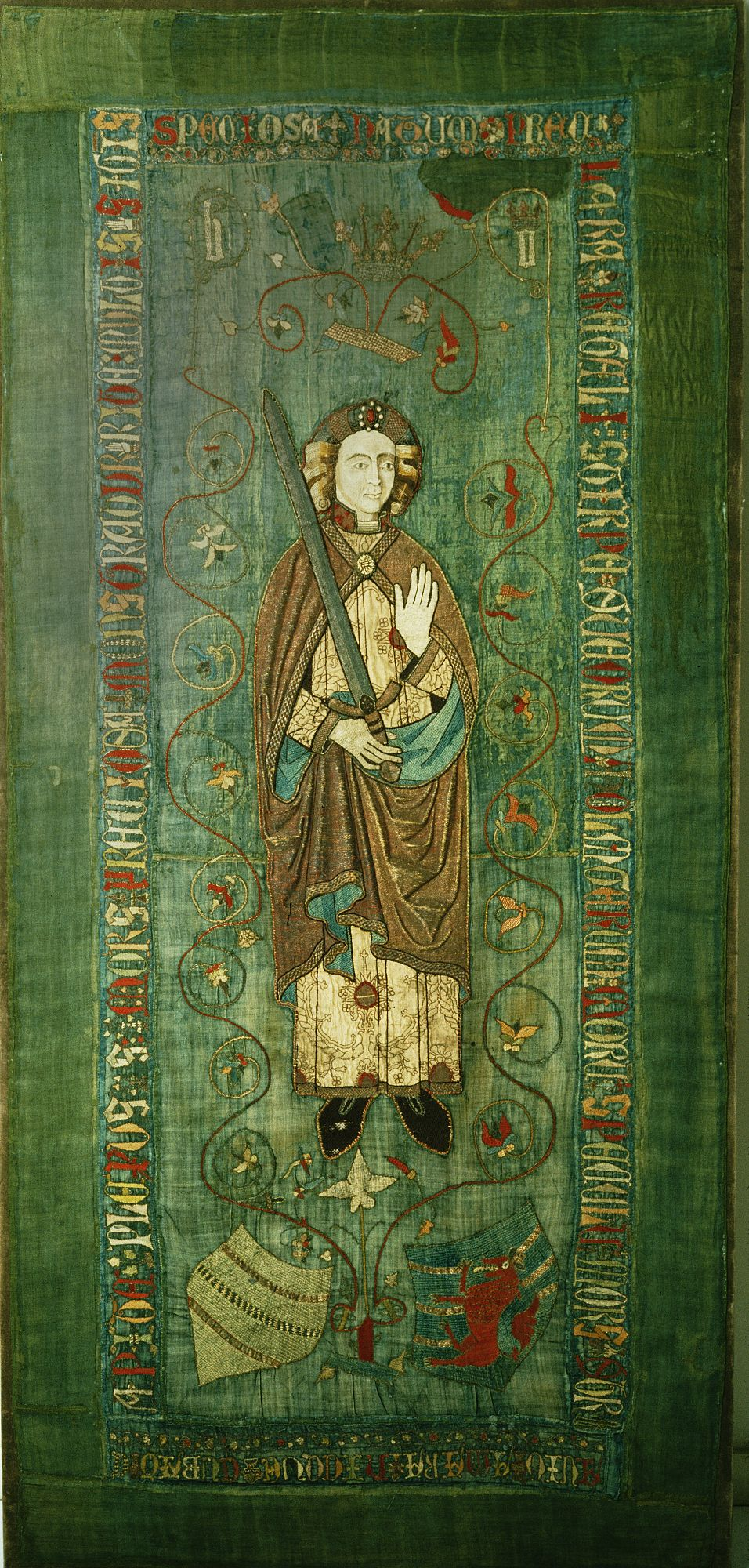 Grave cover of Prince Hollinger (Holmger Knutsson) pretender to the Swedish throne, born circa 1210, beheaded 1248) from Skokloster, Sweden. Donated to the Swedish state in 1703, and on display at the Swedish Museum of National Antiquities since 1914: The Textile Chamber – Tomb Cover.)